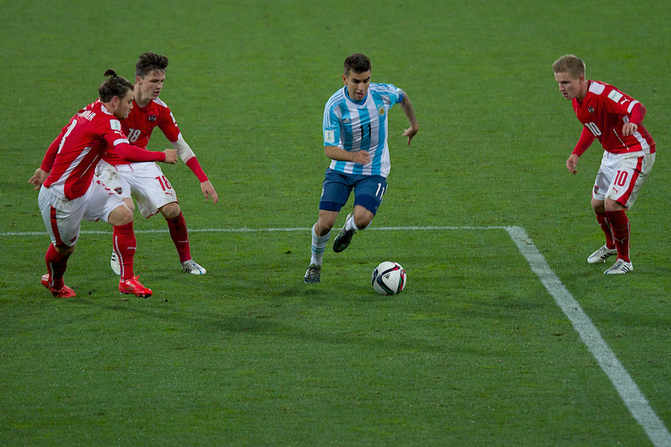 Argentina v Austria during the Under 20 World Cup in Wellington, New Zealand. The 0-0 draw sent Austria through to the group stage and sent Argentina home.